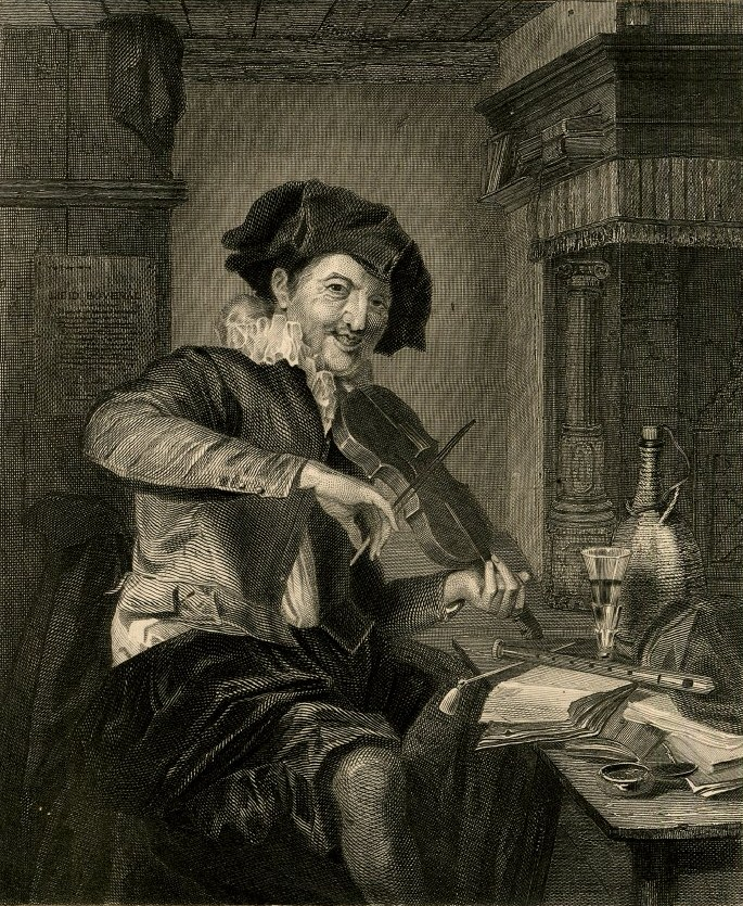 Engraving of The Merry Fiddler, illustration in Allan Cunningham, Cabinet Gallery (1833).